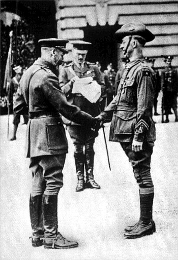 Cpl. George Julian "Snowy" Howell, 1st Battalion, AIF, being presented with his Victoria Cross and Military Medal by King George V